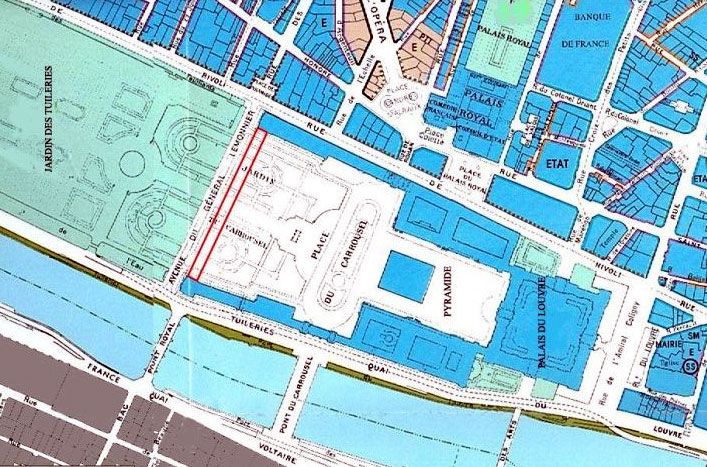 Ancien emplacement du Palais des Tuileries.